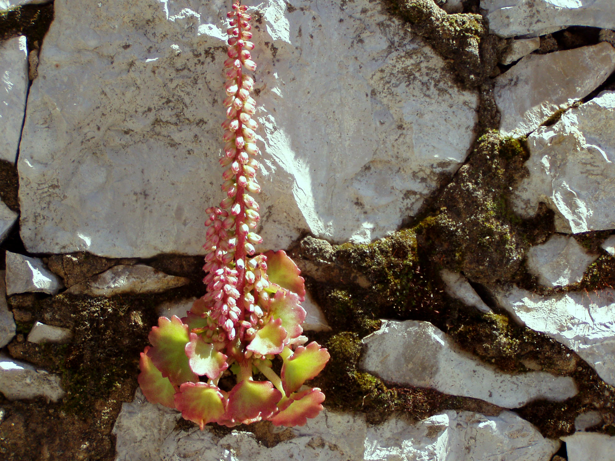 Navelwort. The plant turns red in the sun. Nazaré, Portugal.